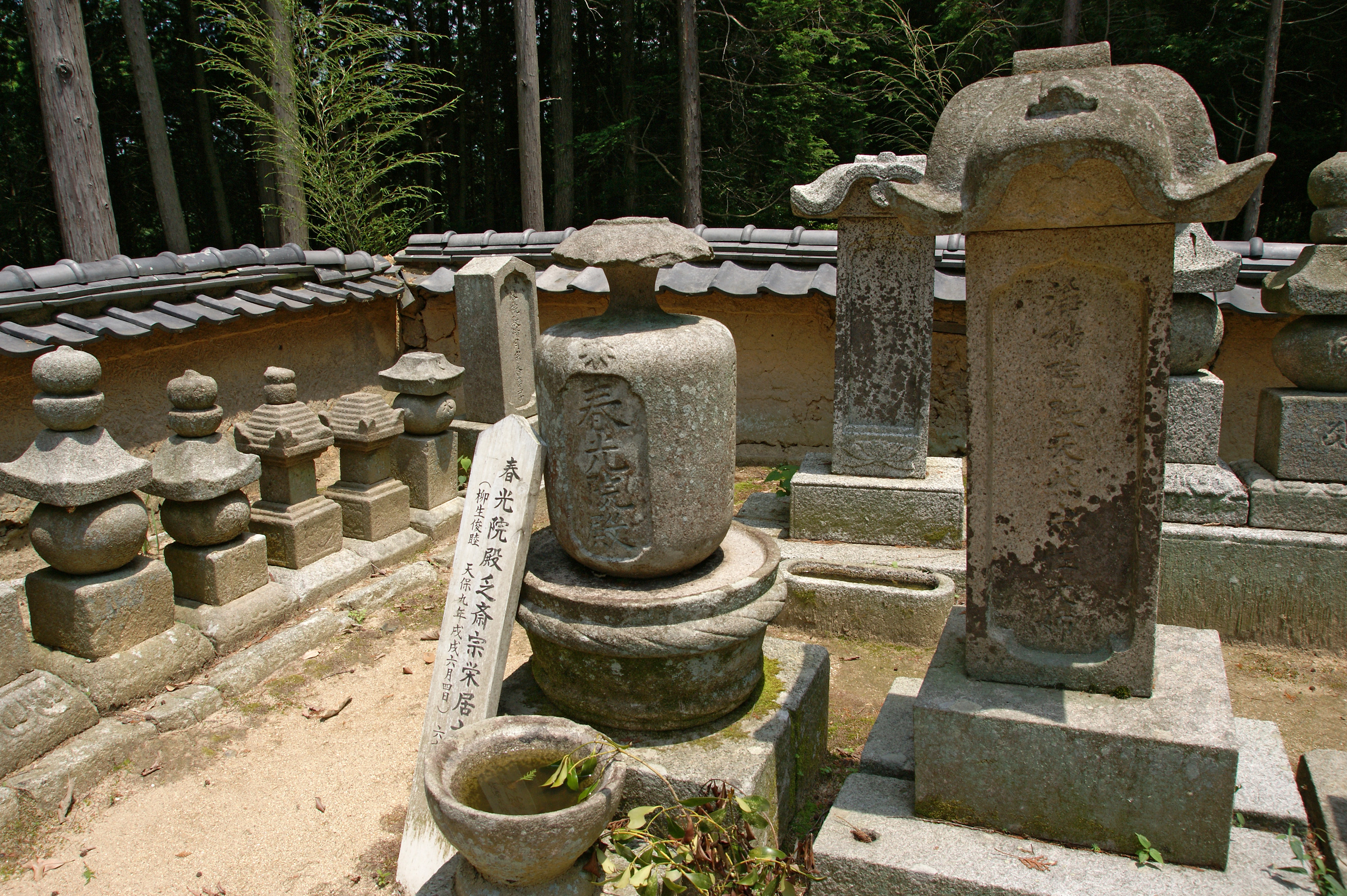 Hotokuji in Nara, Nara prefecture, Japan